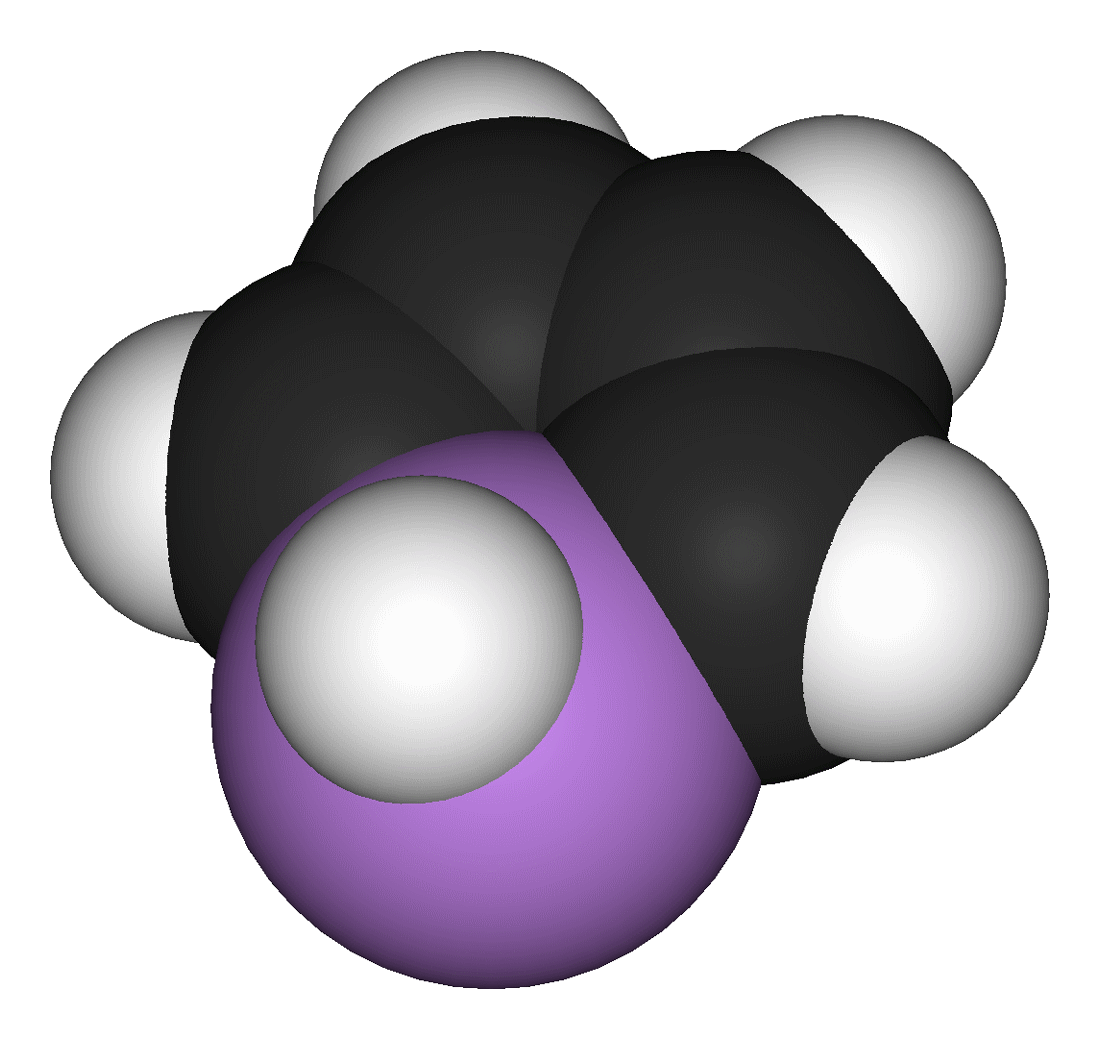 Space-filling model of the Arsole